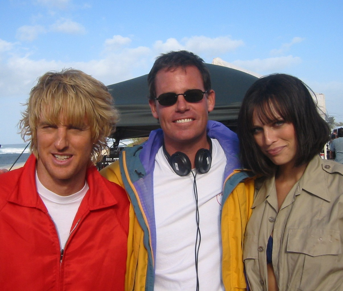 Brent Armitage in Haleiwa, Hawaii